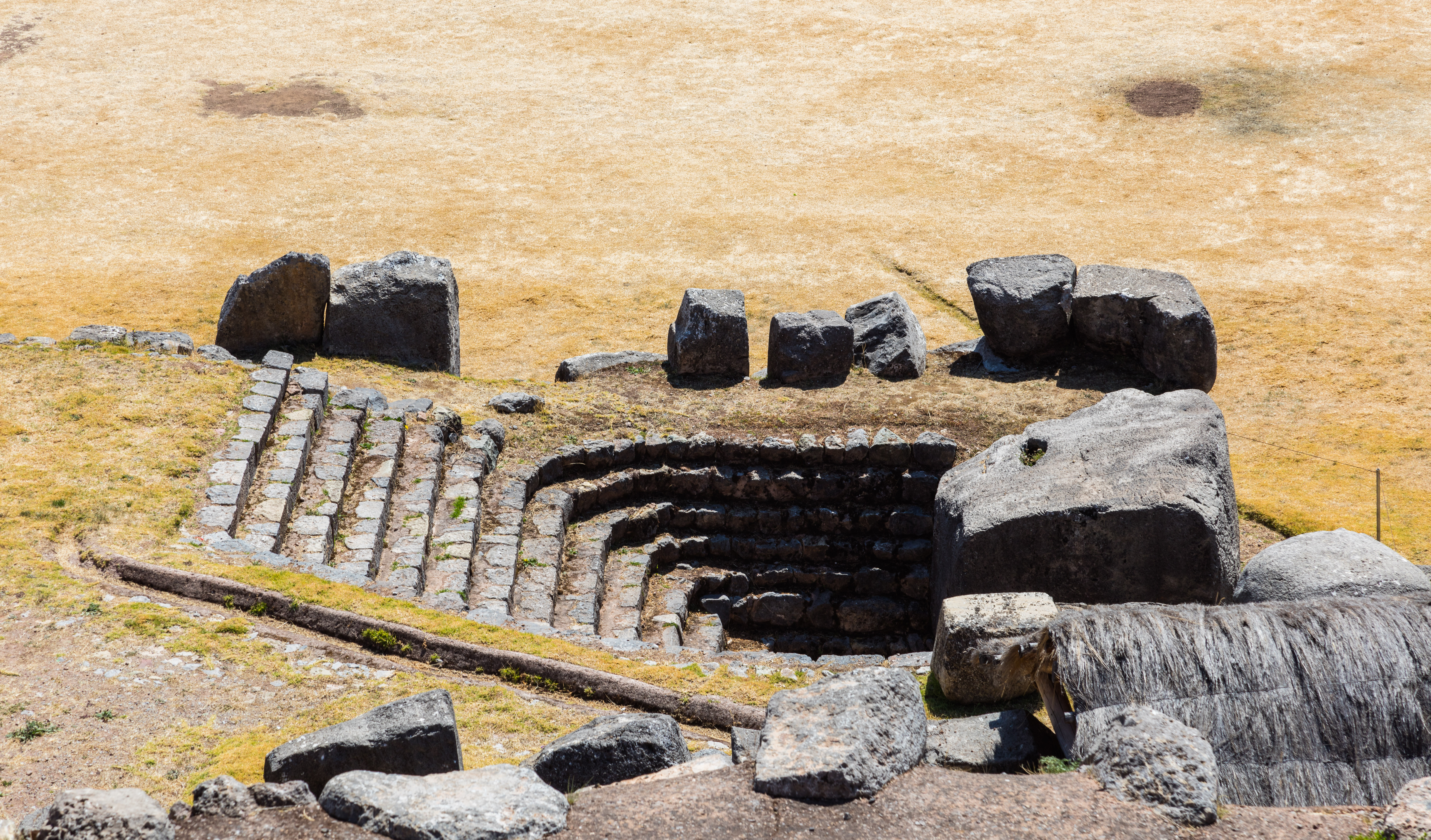 Sacsayhuamán, Cusco, Peru